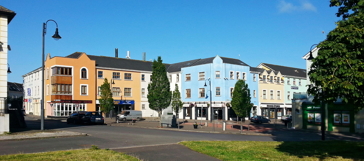 Ongar Square - Ongar Village